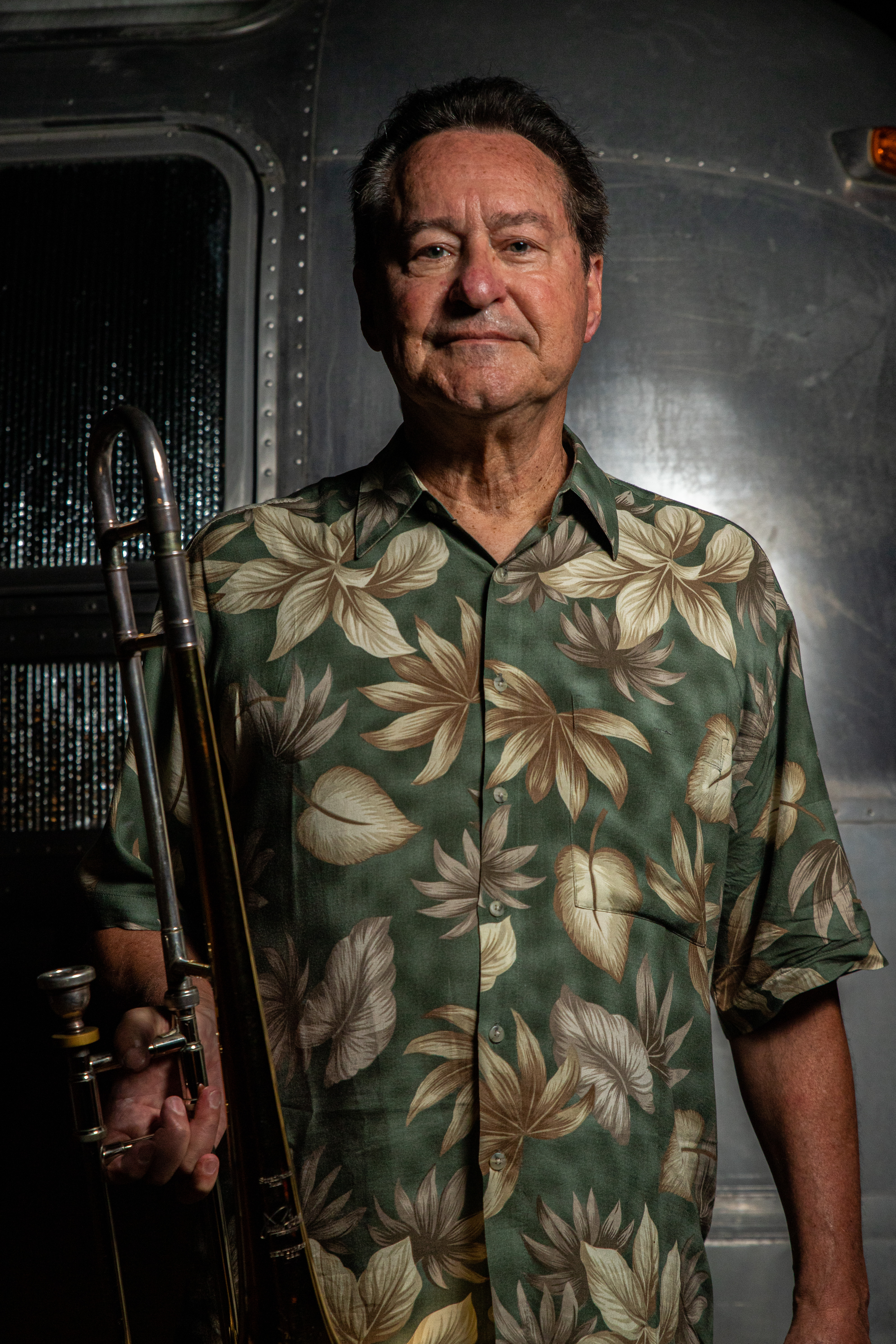 Tom "Bones" Malone at the 2019 Piney Woods Picnic – Photo by Rob Walker/Walker Photo Works